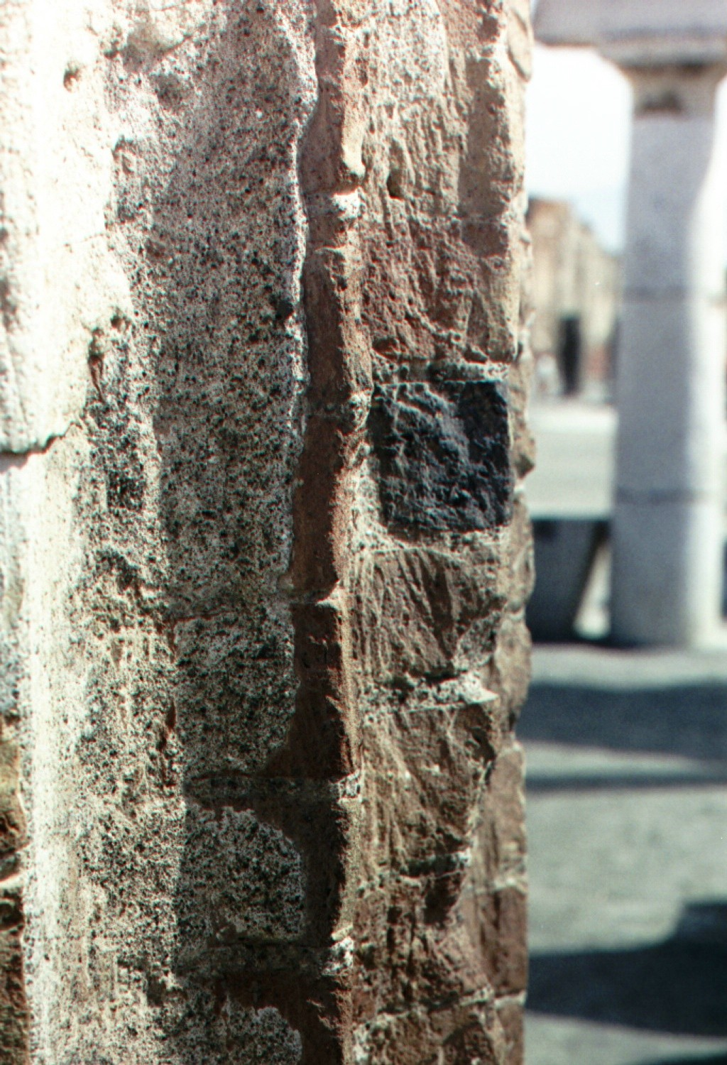 The inside of a Pompeiian column